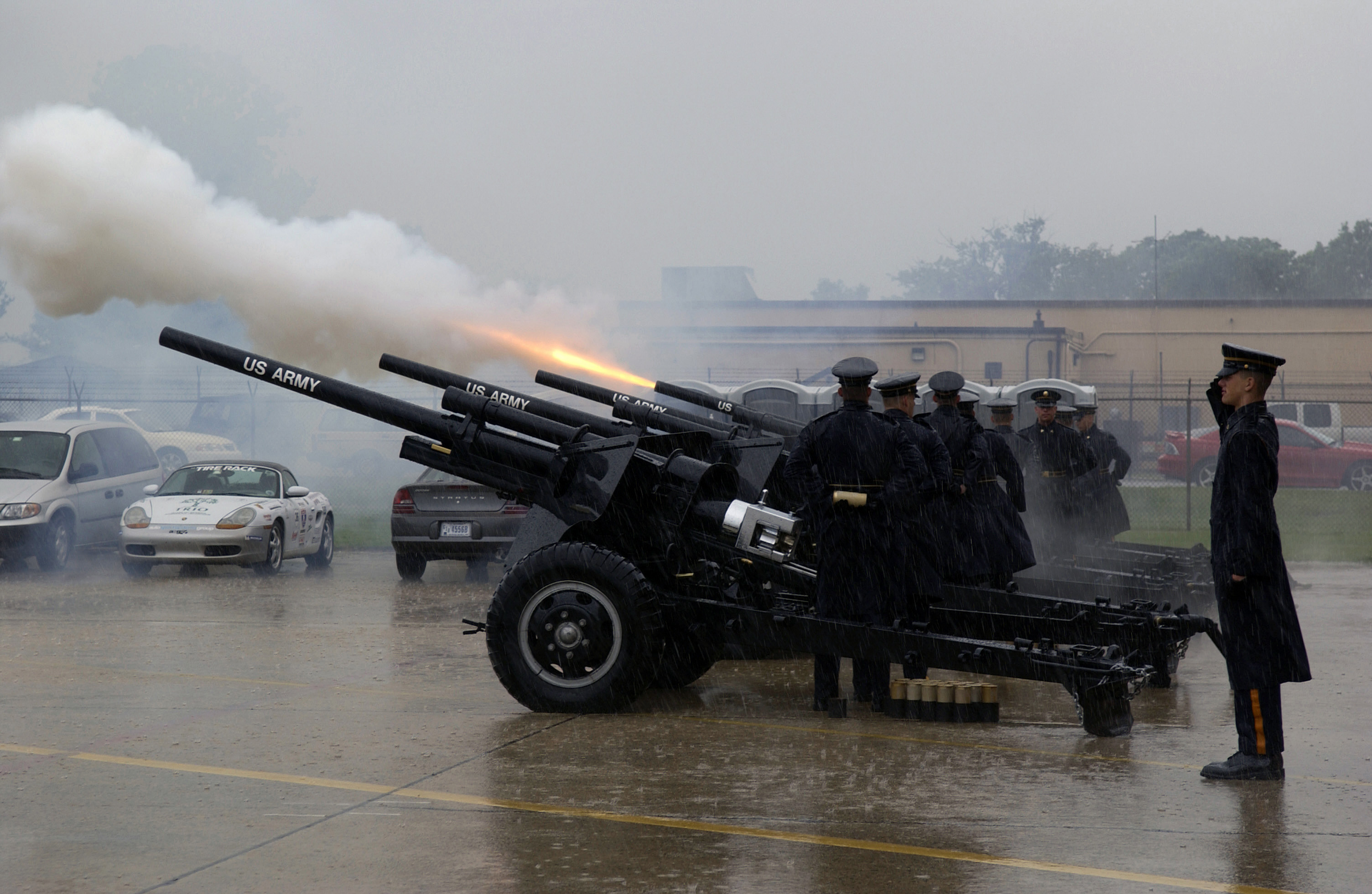 US Army (USA) Private (PVT) Brian Plass salutes while his fellow infantrymen with the United States Third Infantry Regiment, or Old Guard, fire 19 rounds with four World War II vintage 3-inch anti-tank guns during the opening ceremony of the Department of Defense (DoD) Joint Service Open House (JSOH). The ceremony was hosted at Andrews Air Force Base (AFB), Maryland (MD), marked the 55th annual celebration of Armed Forces Day. Location: ANDREWS AIR FORCE BASE, MARYLAND (MD) UNITED STATES OF AMERICA (USA)